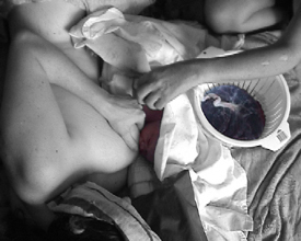 Physiological 3rd stage, breastfeeding the placenta out.